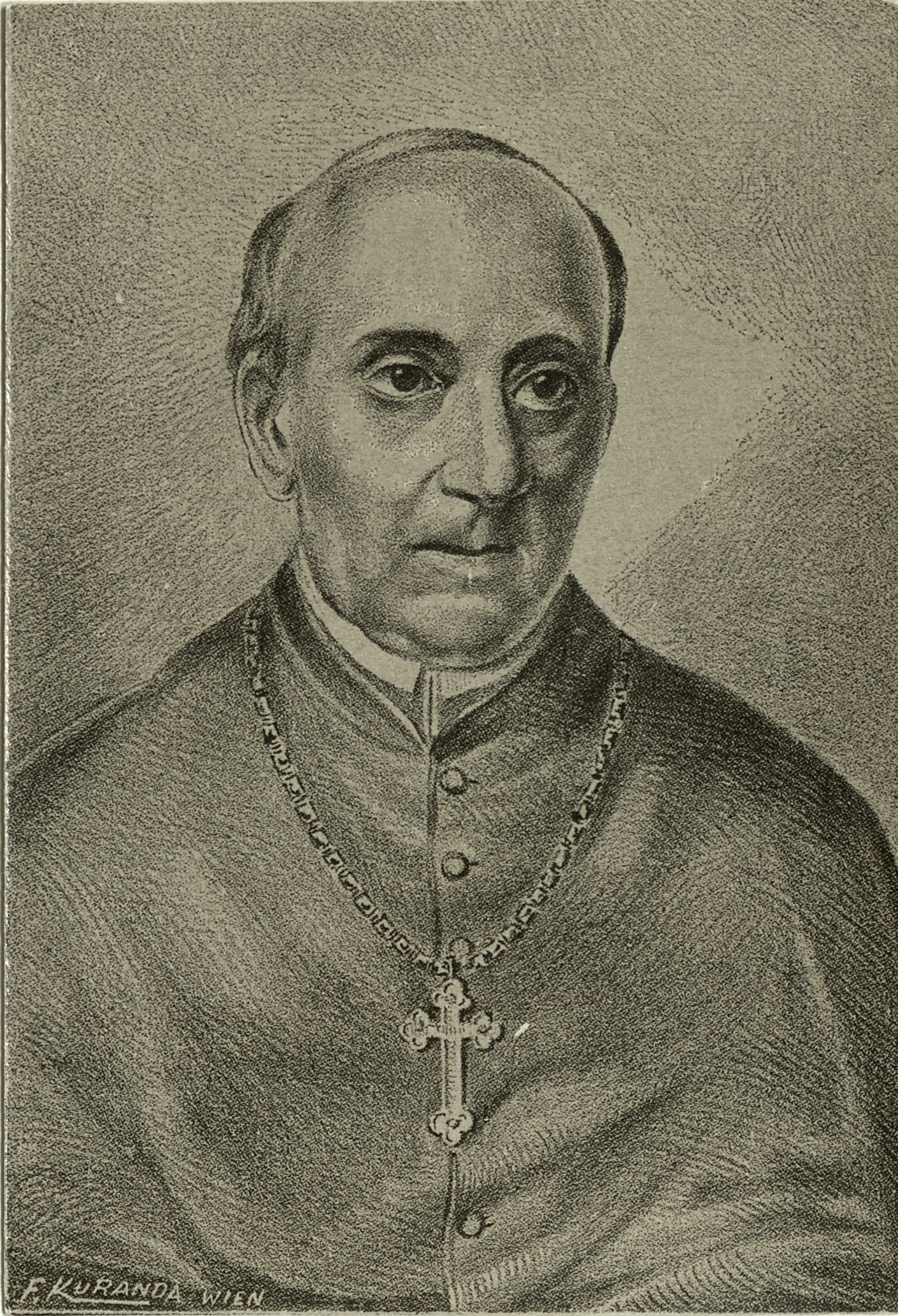 This is an illustration of Matevž Ravnikar in the book of Jernej Ravnikar (published 1890)